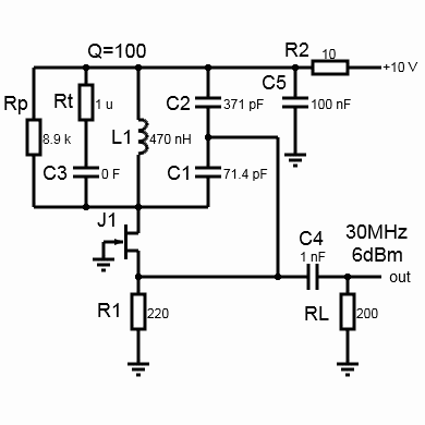 Colpitts Oscillator schematic with JFET in common gate configuration